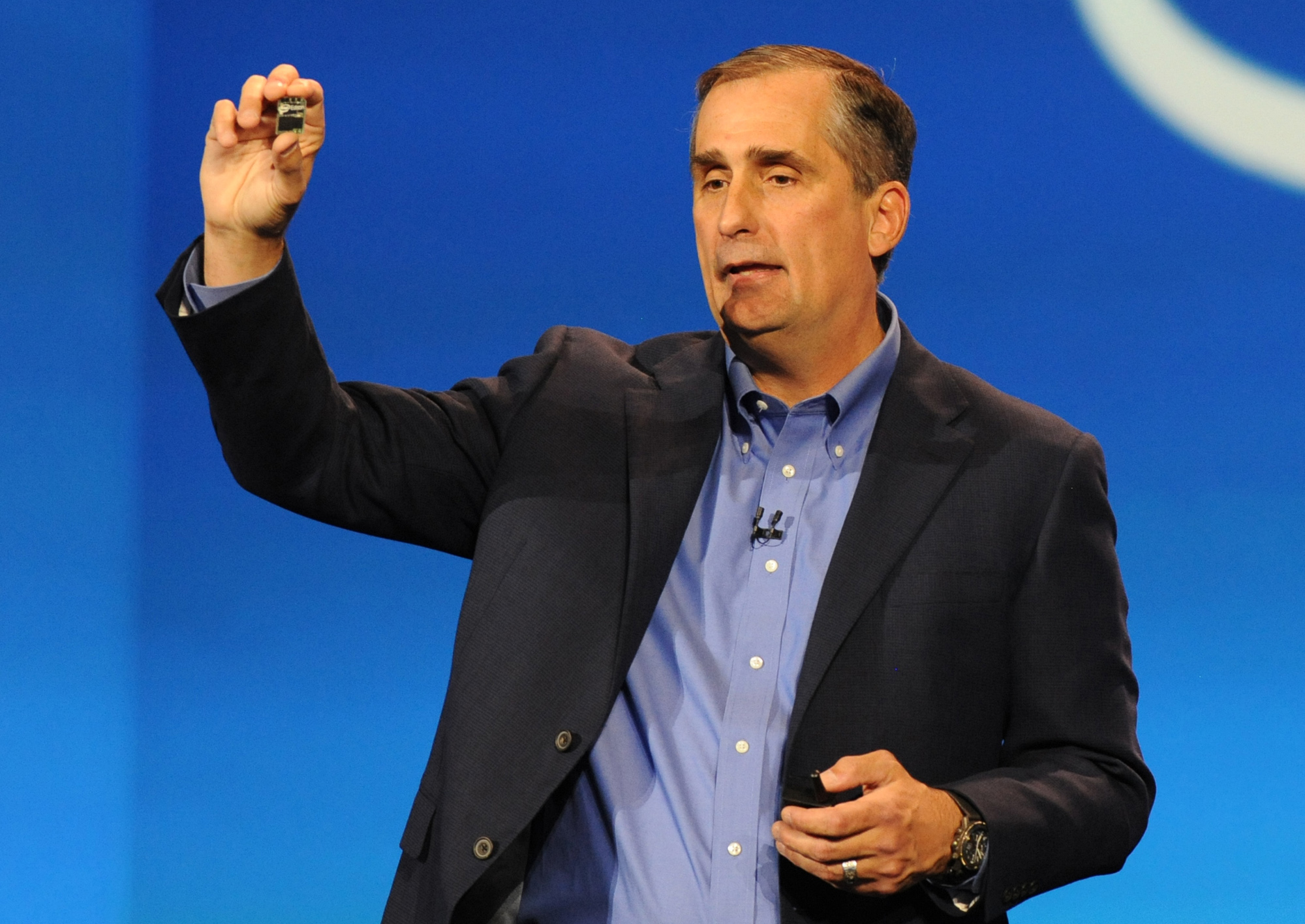 In this photo released by Intel Corporation, Brian Krzanich, Intel's Chief Executive Officer, unveils Intel Edison, a new Intel Quark technology-based computer housed in an SD card with built-in wireless during his keynote speech prior to opening of 2014 International CES (Consumer Electronics Show), Monday, January 6, 2014 in Las Vegas. Mr. Krzanich demonstrated how Intel Edison is well suited to enable rapid innovation and product development by a range of inventors, entrepreneurs and consumer product designers when available this year. The 2014 International CES is one of the world's largest gathering places for all who thrive on consumer technologies and ran on January 7-10, 2014 in Las Vegas. (AP Photo/Intel Corporation,Bob Riha, Jr.)